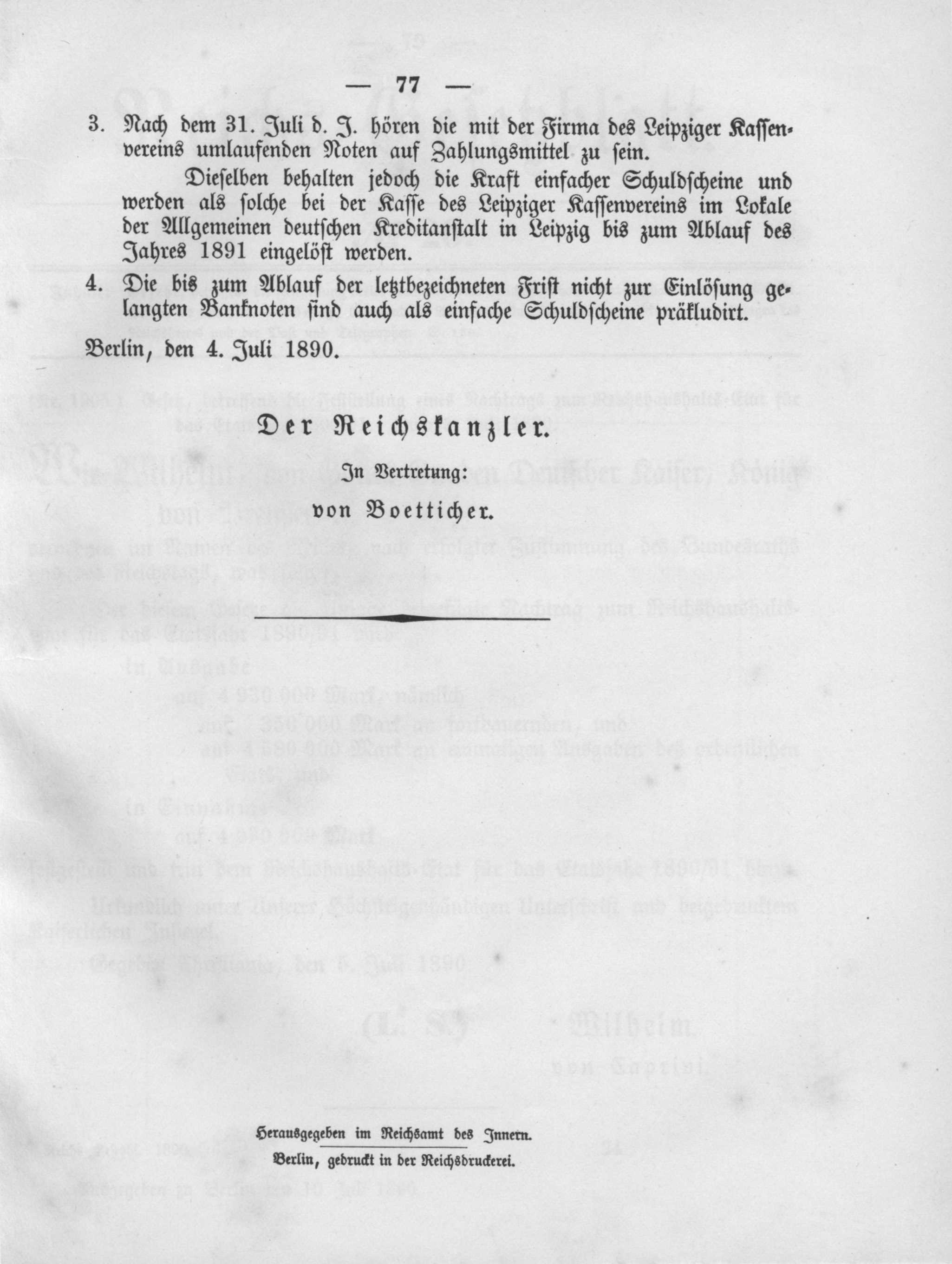 Scan from the Imperial Law Gazette of Germany, 1890